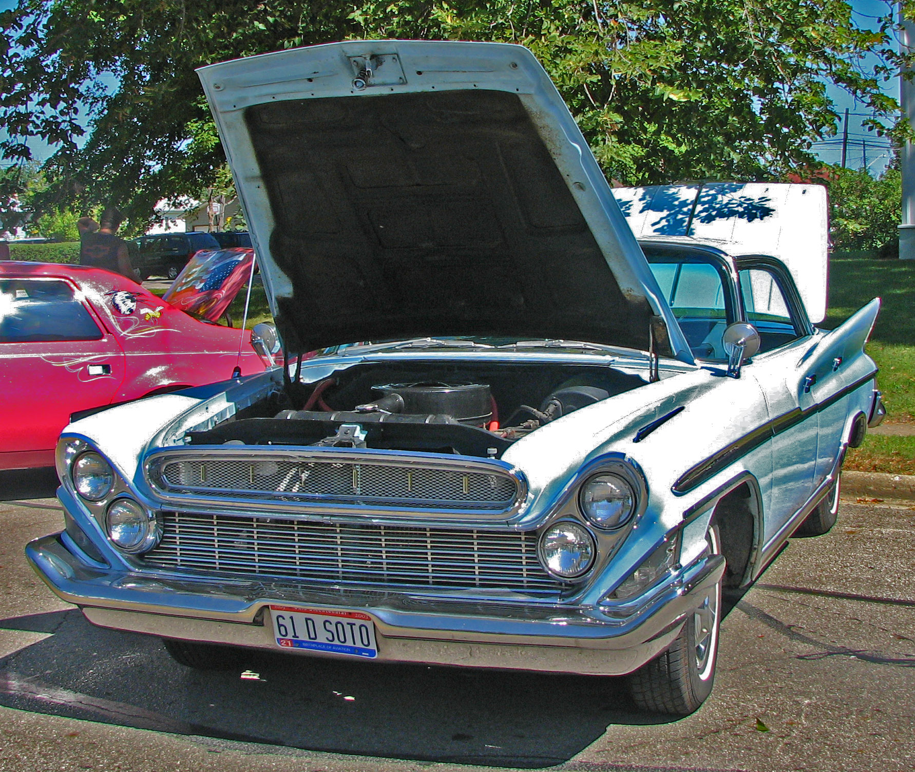 Seen along a Frankfort, Ohio street at the Sunflower Festival Car Show. When the car was new, you would have heard these top 20 songs on its AM radio: 1 Tossin' and Turnin' - Bobby Lewis # 1 2 Big Bad John - Jimmy Dean # 1 3 Runaway - Del Shannon # 1 4 Wonderland By Night - Bert Kaempfert # 1 5 Pony Time - Chubby Checker # 1 6 The Lion Sleeps Tonight - The Tokens # 1 7 Blue Moon - Marcels # 1 8 Take Good care Of My Baby - Bobby Vee # 1 9 Calcutta - Lawrence Welk # 1 10 Runaround Sue - Dion # 1 11 Michael - The Highwayman # 1 12 Travelin' Man - Ricky Nelson # 1 13 Quarter To Three - Gary U.S. Bonds # 1 14 Hit The Road Jack - Ray Charles # 1 15 Surrender - Elvis Presley # 1 16 Will You Love Me tomorrow - The Shirelles # 1 17 Mother-In-Law - Ernie K-Doe # 1 18 Please Mr. Postman - The Marvelettes # 1 19 Wooden Heart - Joe Dowell # 1 20 Moody River - Pat Boone